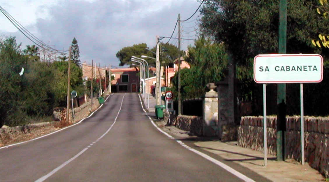 Sa Comuna road, Sa Cabaneta Marratxí